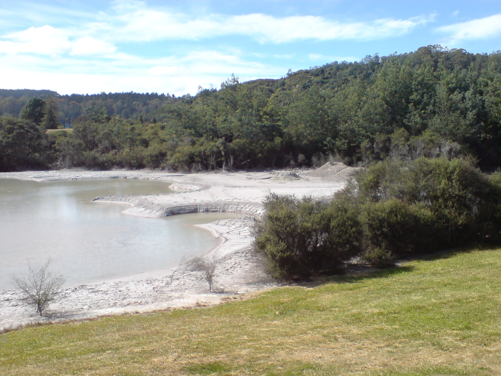 A part of the golf course (!) near the southern edge of Rotorua, New Zealand. The 'water hazard' is actually a geothermal mudpool.